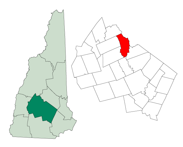 Map of Franklin, a municipality in Merrimack County, New Hampshire